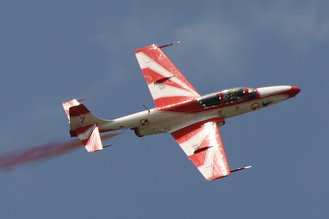 PZL TS-11 Iskra, Polish jet trainer aircraft. Biało-Czerwone Iskry aerobatic team. Kraków Air Show 2007.